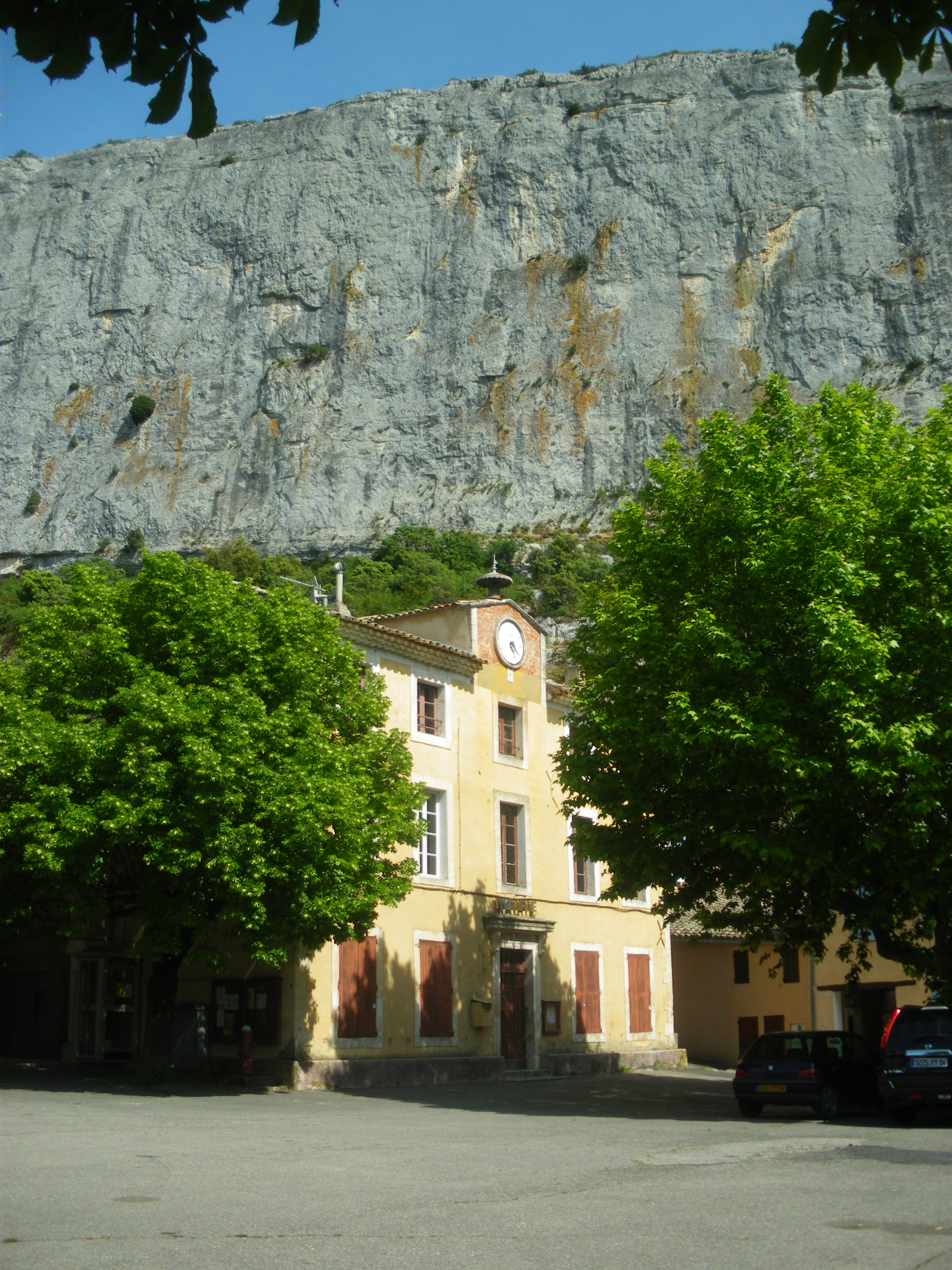 Town hall of Lioux, Vaucluse